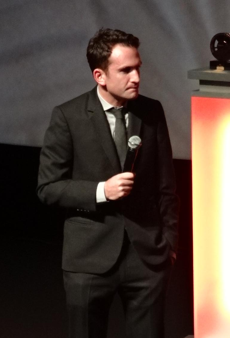 A photo of American film director Jake Schreier.